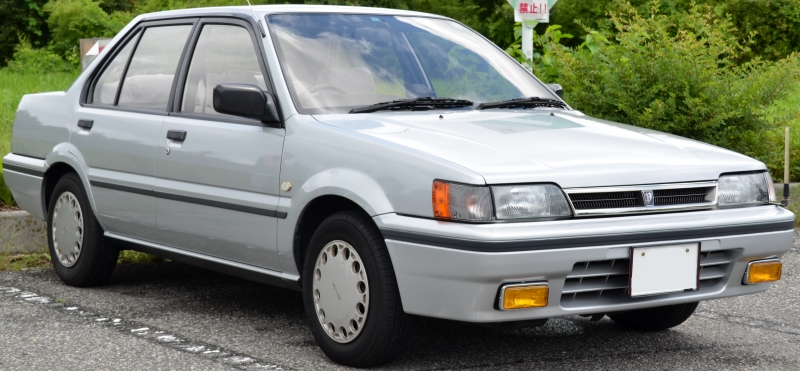 Nissan Pulsar M1 Excellence